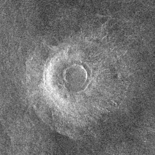 Small volcano Justitia Tholus on Venus. Radar image by Magellan, made in Left-Look mode. Width of the image is 40 km, north is up, contrast is increased.